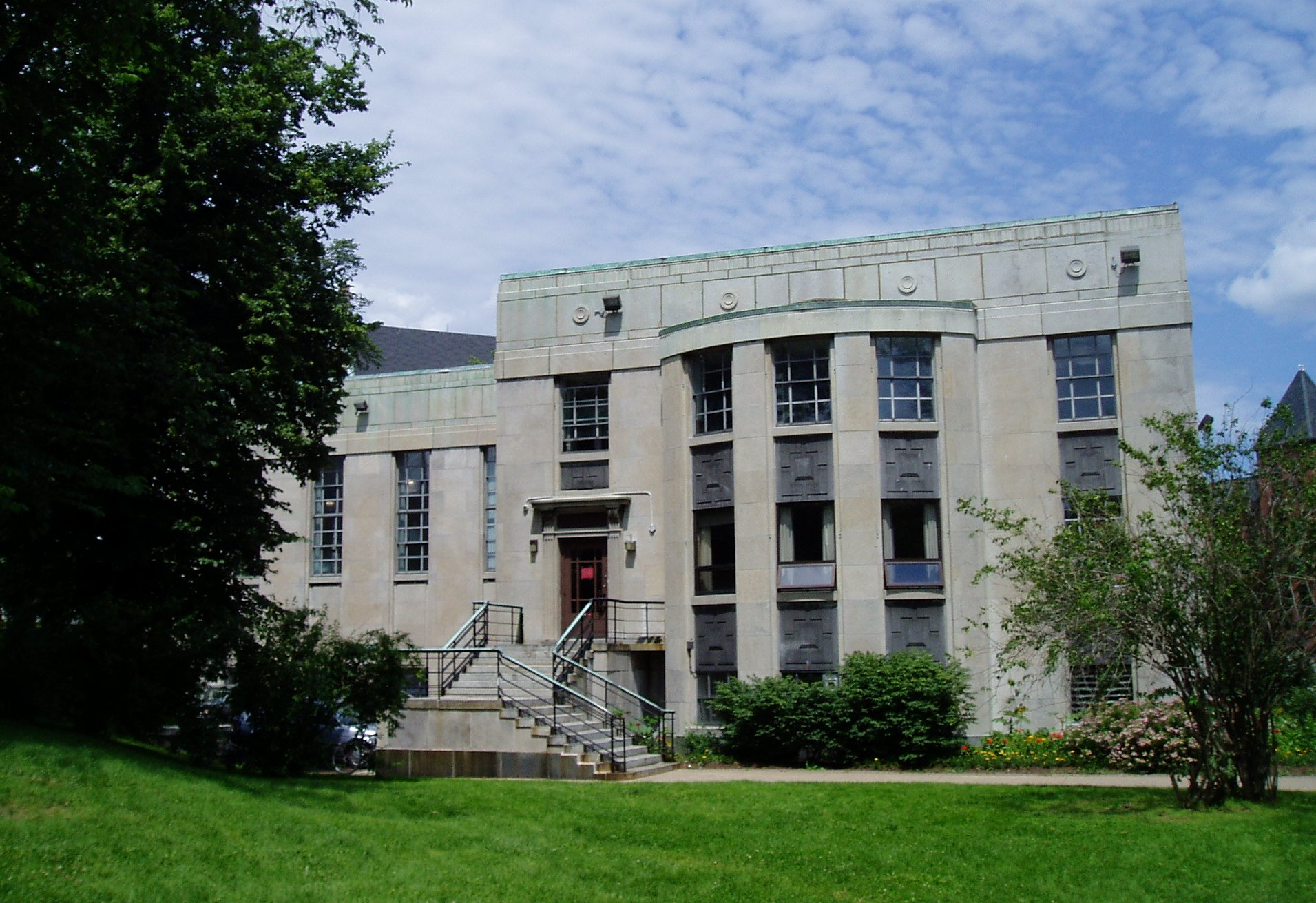 The former Spring Garden Road Memorial Library opened in 1951 as a memorial to the city's casualties in the First World War and Second World War. Unitl its closure in 2014, it was the largest branch in the Halifax, Nova Scotia, with more than 228,000 titles. It was replaced by the Halifax Central Library nearby and as of 2016 was not in use.